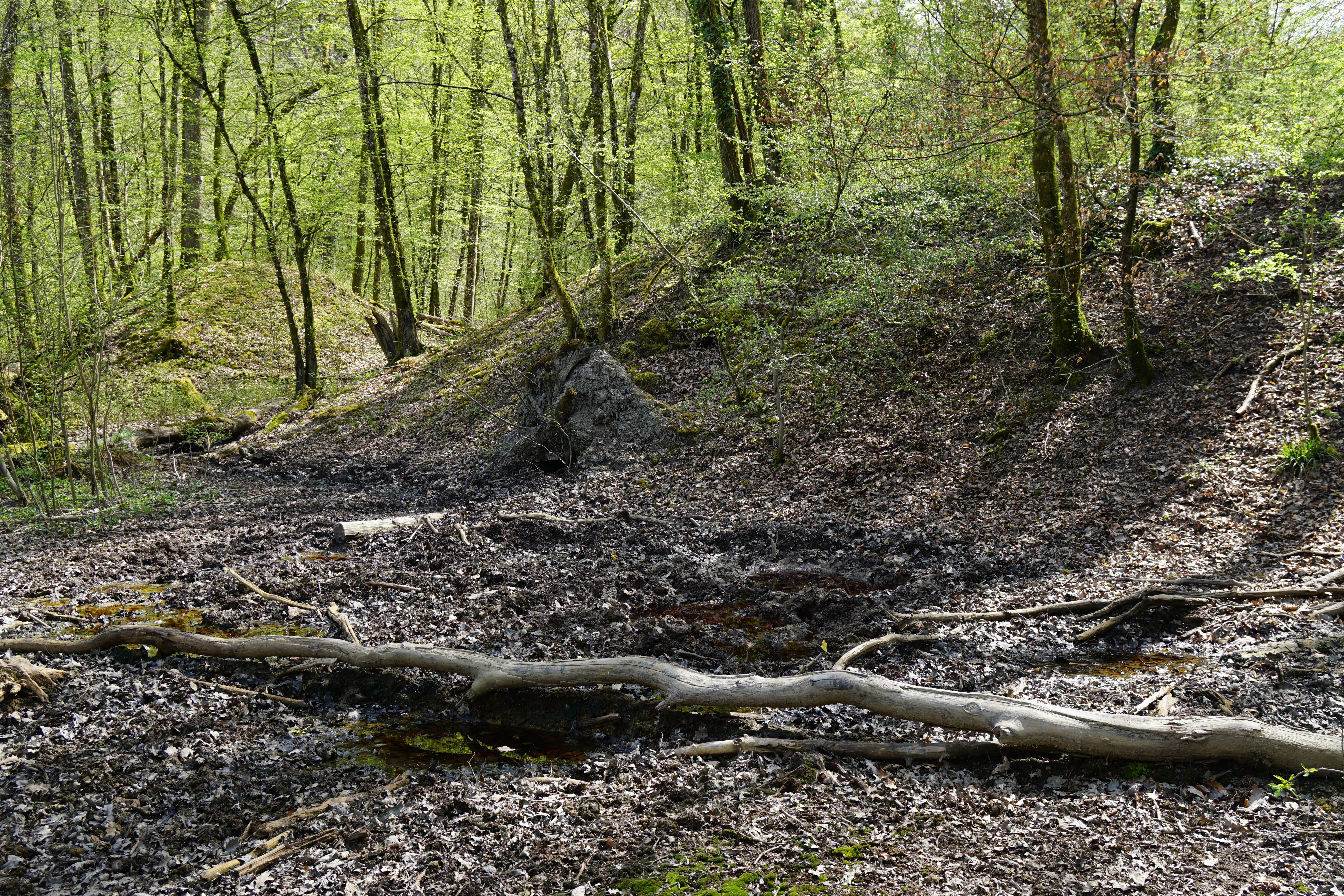 Spoil tip of the old coal mine "puits de la Houillère" in Gémonval (France).Object location47° 32′ 18.05″ N, 6° 34′ 55.72″ E